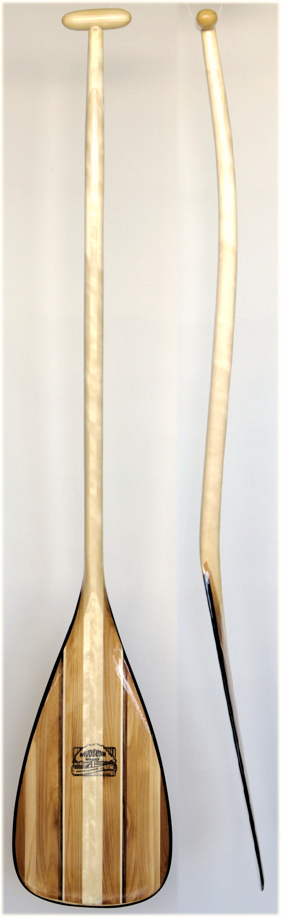 double bentshaft paddle, wood, angle= 14degree, length= 51inch, weight= 700gram